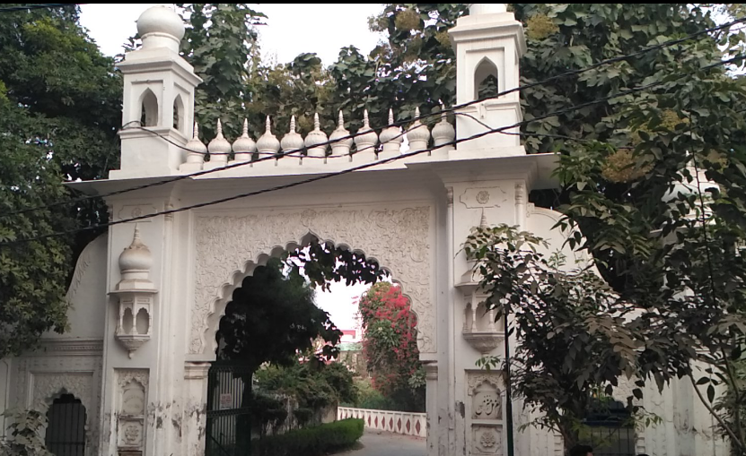 Muzammil Manzil Gate